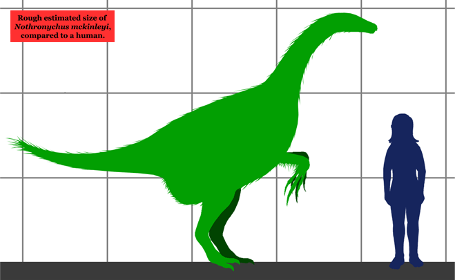 Rough estimated size of the therizinosaurid Nothronychus,[1] compared to a human. References ↑ Kirkland J.I. & Wolfe D.G. (2001), "First definitive therizinosaurid (Dinosauria; Theropoda) from North America", Journal of Vertebrate Paleontology 21(3): p. 410-414.